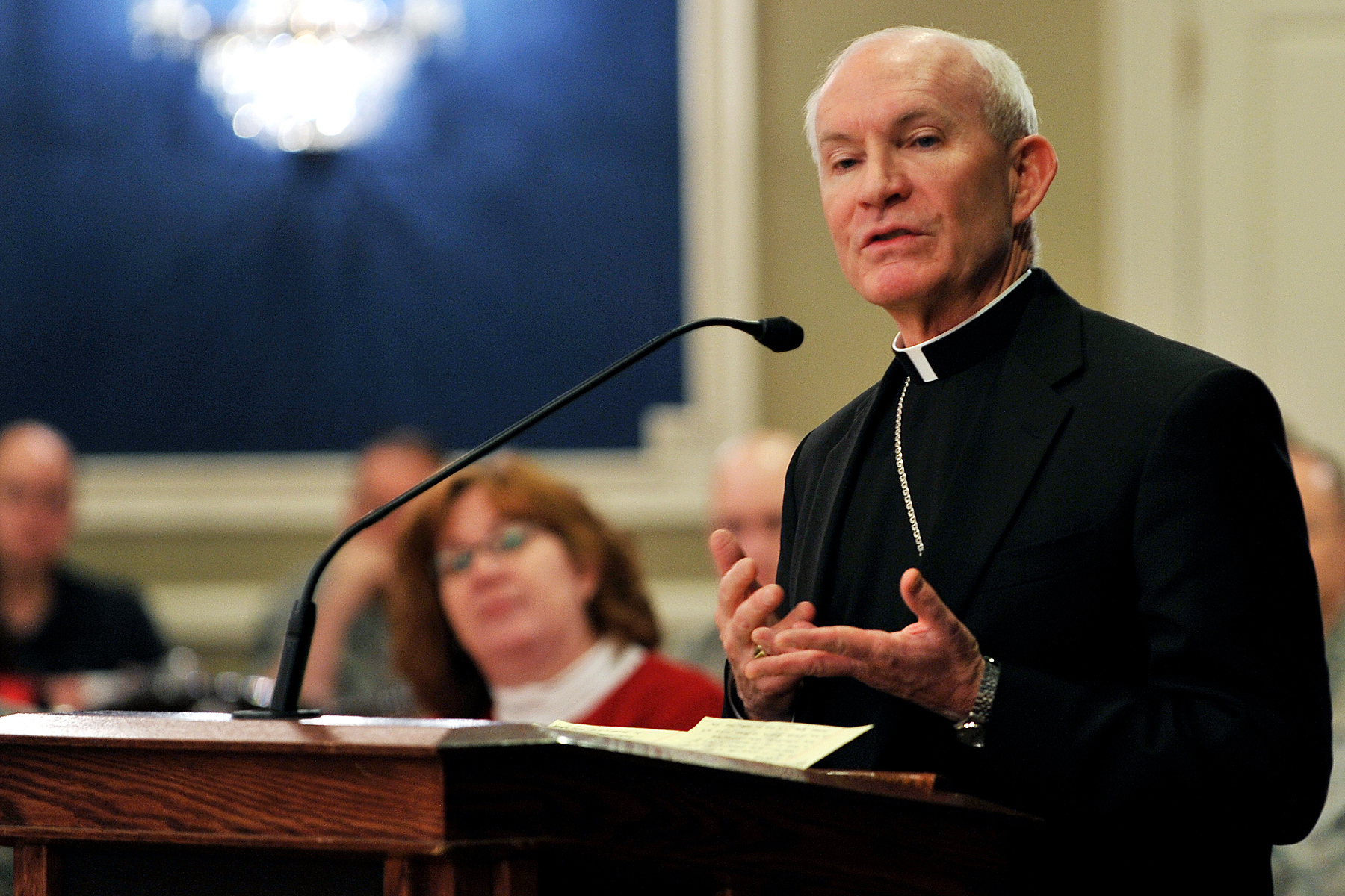 OFFUTT AIR FORCE BASE, Neb. - George Lucas, Archbishop of Omaha, addresses the audience about the importance of prayer during the national prayer luncheon inside the Patriot Club March 10. Throughout this luncheon many of Offutt's personnel representing different faiths and backgrounds came together to pray for warriors fighting for our nation and our families.